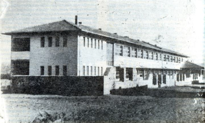 Новата зграда на Гимназијата, 1956 година